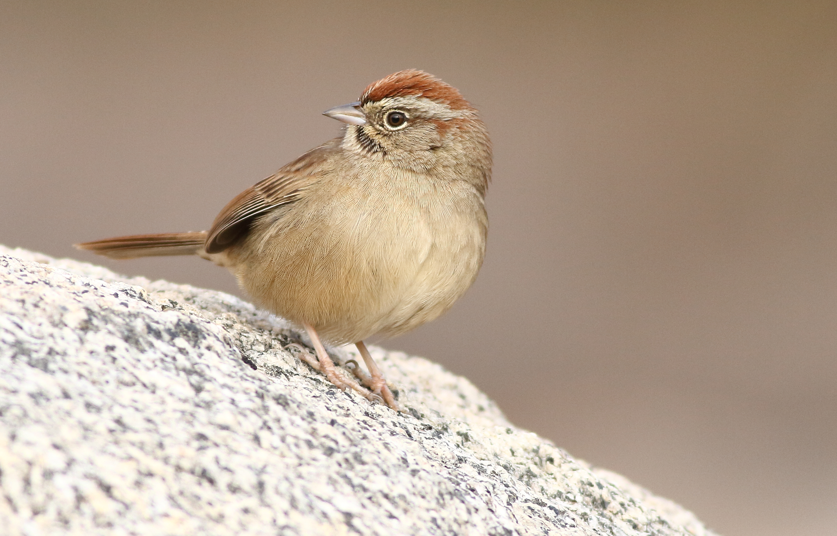 Rufous-crowned Sparrow in Granite Bay, California